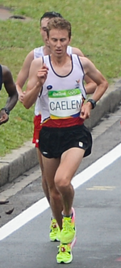 Rio de Janeiro - Sob chuva forte atletas da maratona masculina passam pelo aterro do Flamengo (Tânia Rêgo/Agência Brasil)